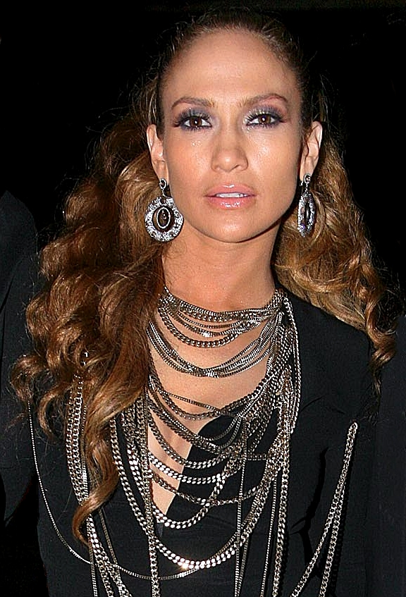 Jennifer Lopez in 2008.